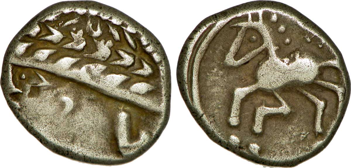 Denier au cheval galopant et au “caducée” frappé par les Allobroges (Région du Dauphiné) . Date : Ier siècle avant J.-C.